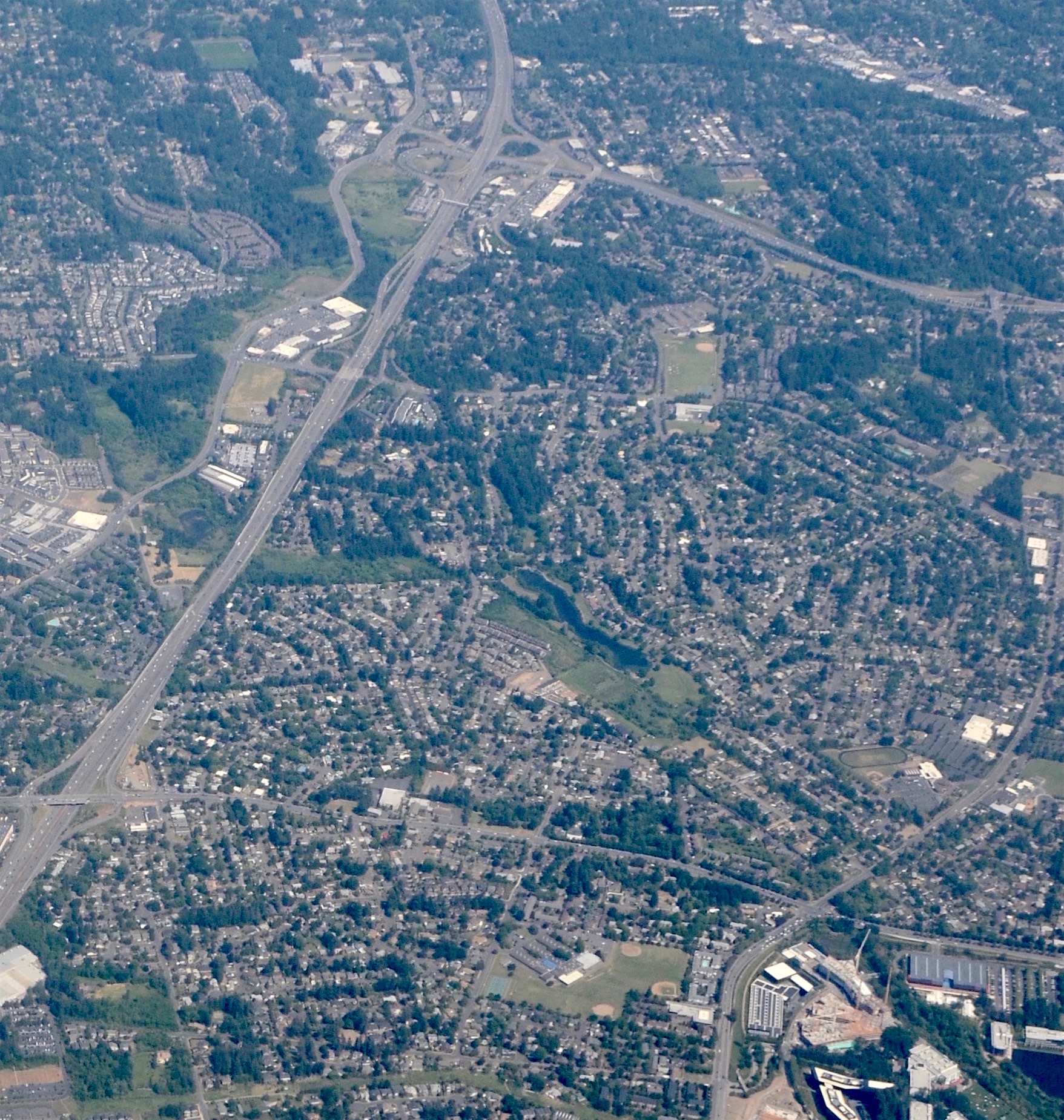 Aerial view of the unincorporated Cedar Hills and Marlene Village areas, in the westside suburbs of Portland, Oregon, from the west. Marlene Village is in the lower half of the frame, below (northeast and east of) Commonwealth Lake, which is near the center of the frame. Cedar Hills fills the central portion of the frame, above and to the right of the lake. The freeway at left is the Sunset Highway (U.S. 26), with its Murray Blvd. interchange in the lower left area. To its left (north), a small portion of the southern part of Cedar Mill is visible. Running left-to-right near the top of the frame is another freeway, Oregon Highway 217. Other points of interest are Meadow Park Middle School, near the bottom-center of the frame, and a small portion of the Nike World Headquarters campus, at the lower right corner.